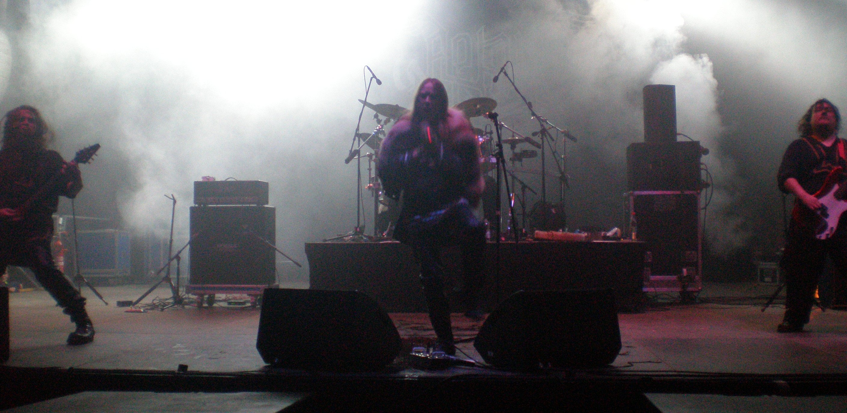 Arkona live @ Crana Historica 2010